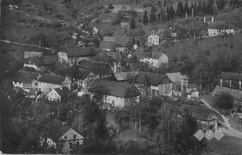 Postcard of Rudno, Železniki